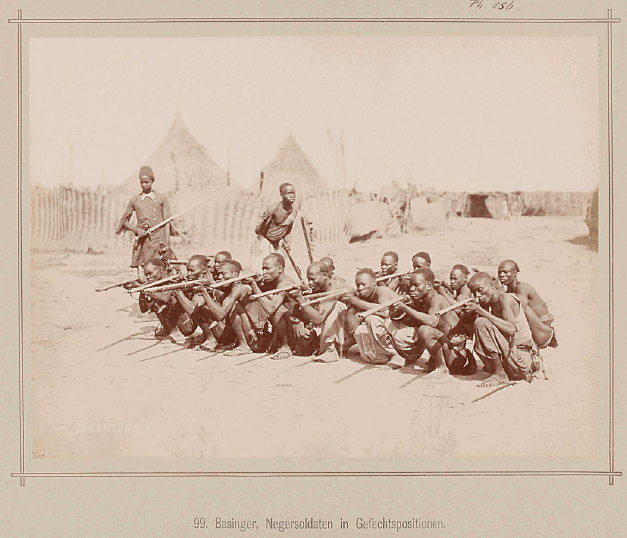 Original title in